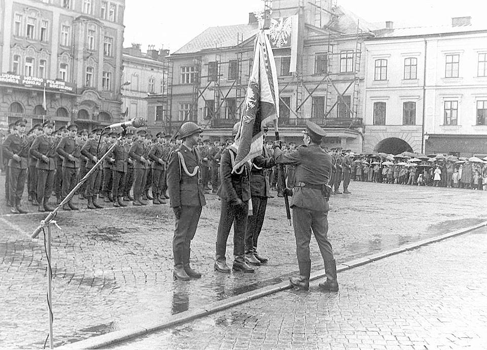 Border Protection Forces in Cieszyn